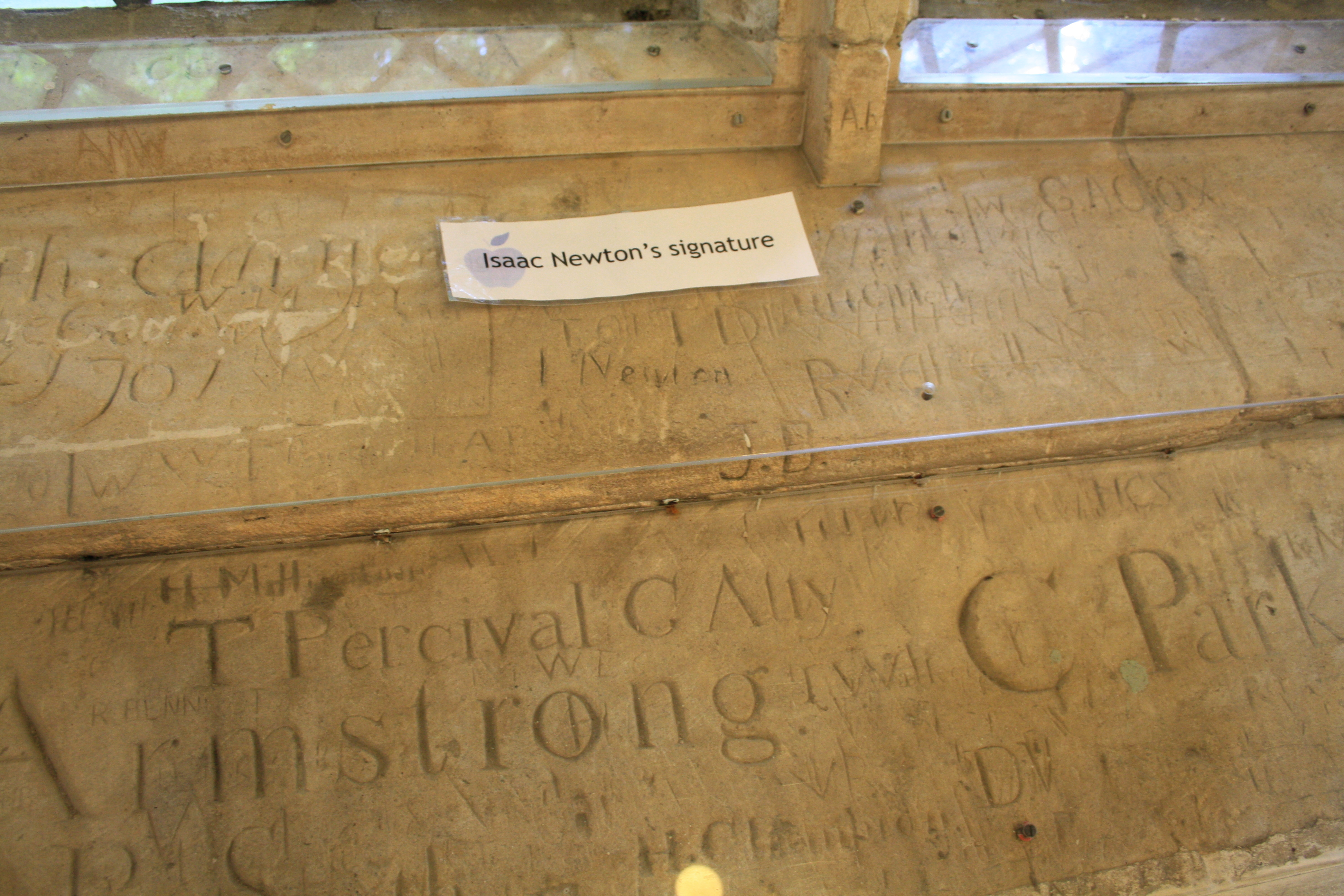 Isaac Newton's signature in the King's School in Grantham